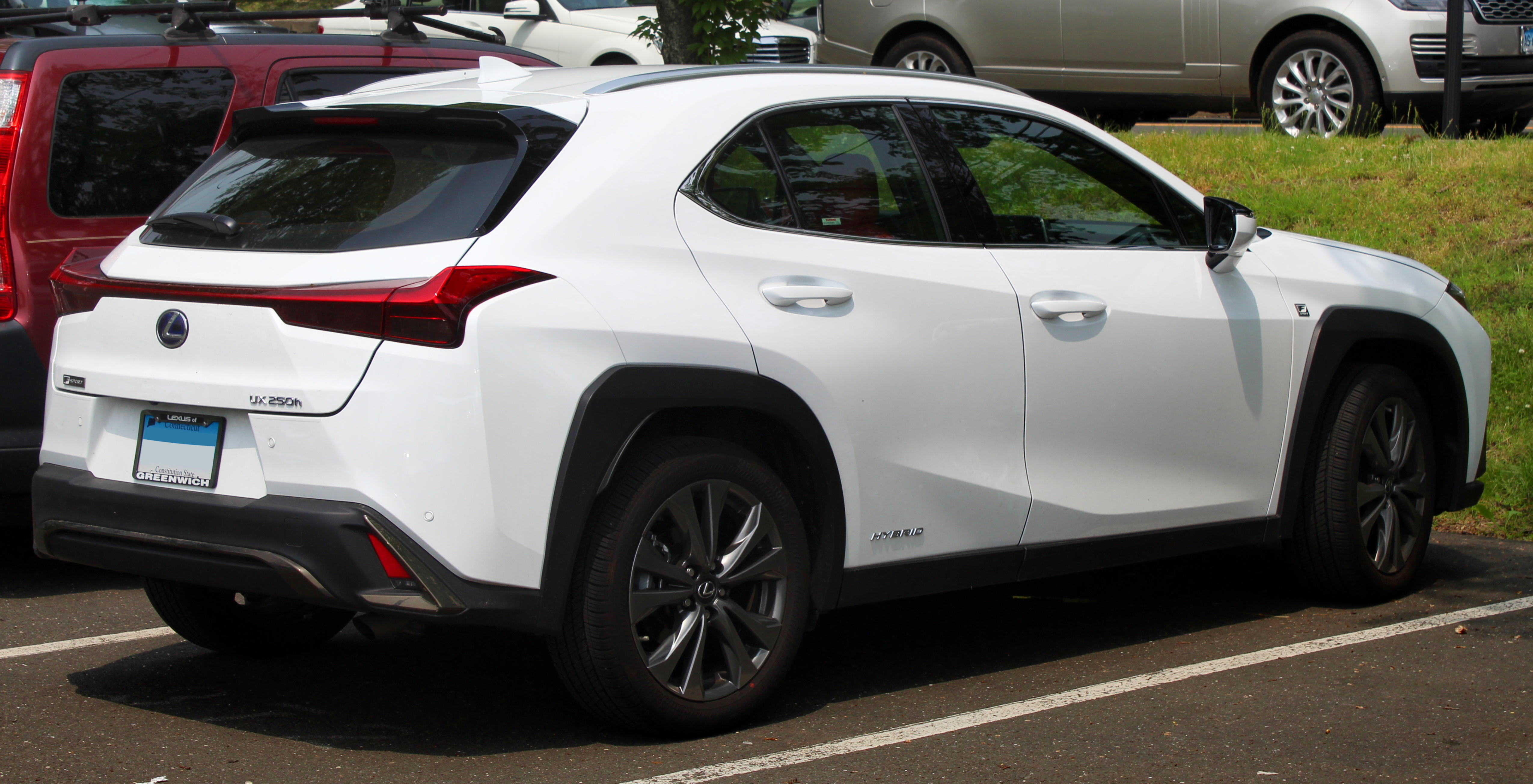 A 2019 Lexus UX250h photographed in Greenwich Concours d'Elégance Hagerty parking lot, Connecticut, USA